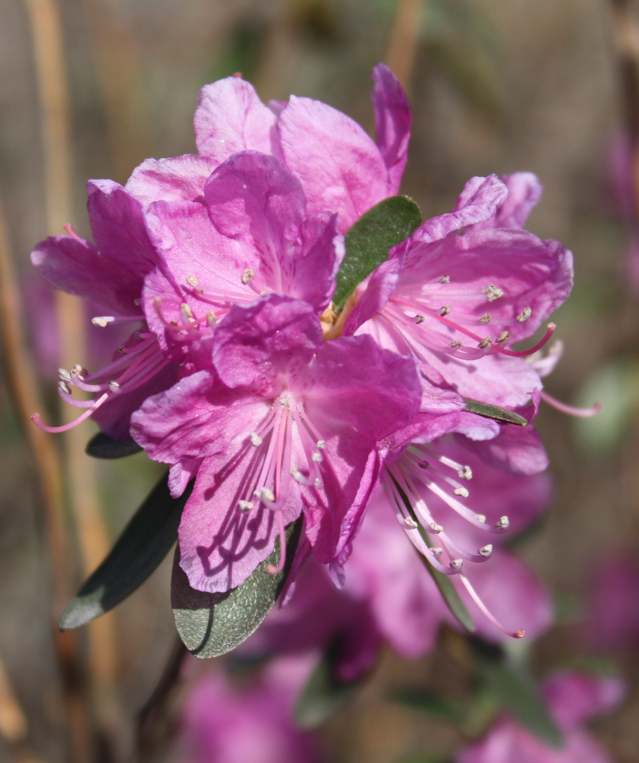 Rhododendron dauricum in The University of Helsinki Botanical Garden in Kaisaniemi